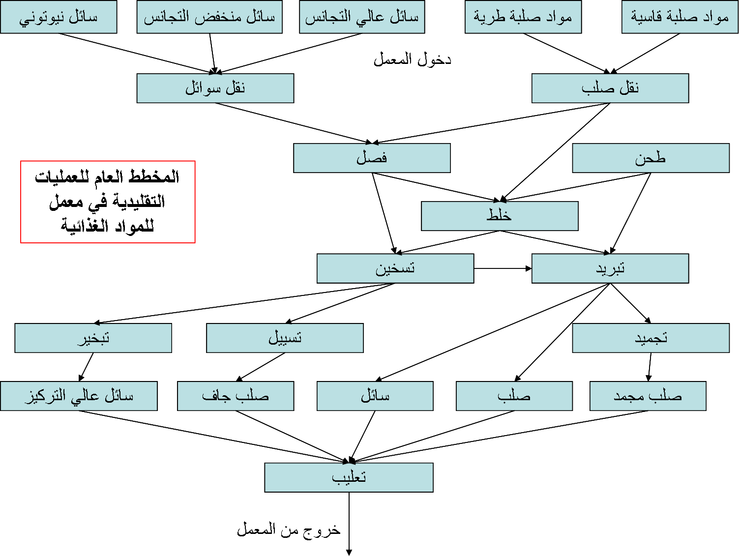 Scheme chart of Food Engineering in Arabic